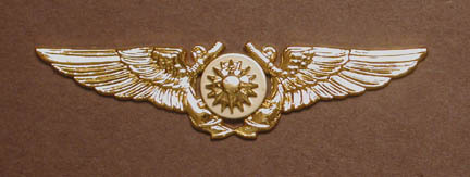 Marine Corps Navigator Badge